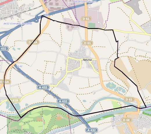 Geolocalisation: top 45.8444 bottom 45.8038 left 5.0289 right 5.0944